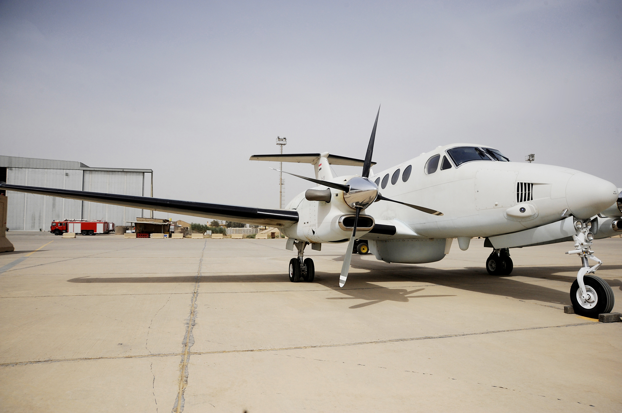 090508-F-8535W-117 An Iraqi air force King Air 350 sits on the airfield at Al Muthana Air Base, Iraq, May 8. The airplane is assigned to the Iraqi air force's King Air Squadron 87 and boasts the intelligence, surveillance and reconnaissance capabilities necessary for the detection and deterrence of insurgent activity.